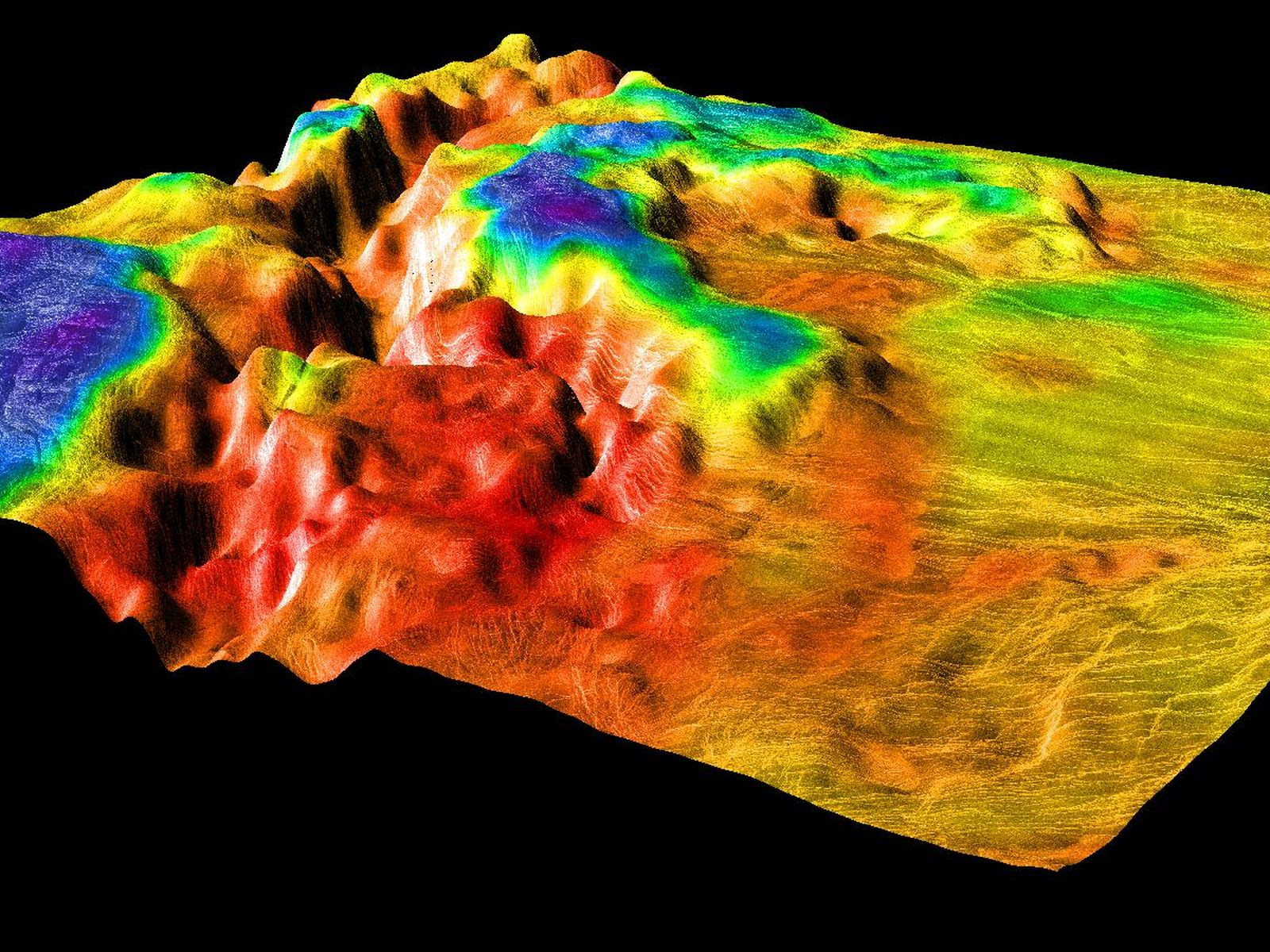 This 3D view depicts the border between the lowland plains on the right and the crustal plateau region of Ovda Regio on the left. This image was created using Magellan's data and organized by color with emissivity.